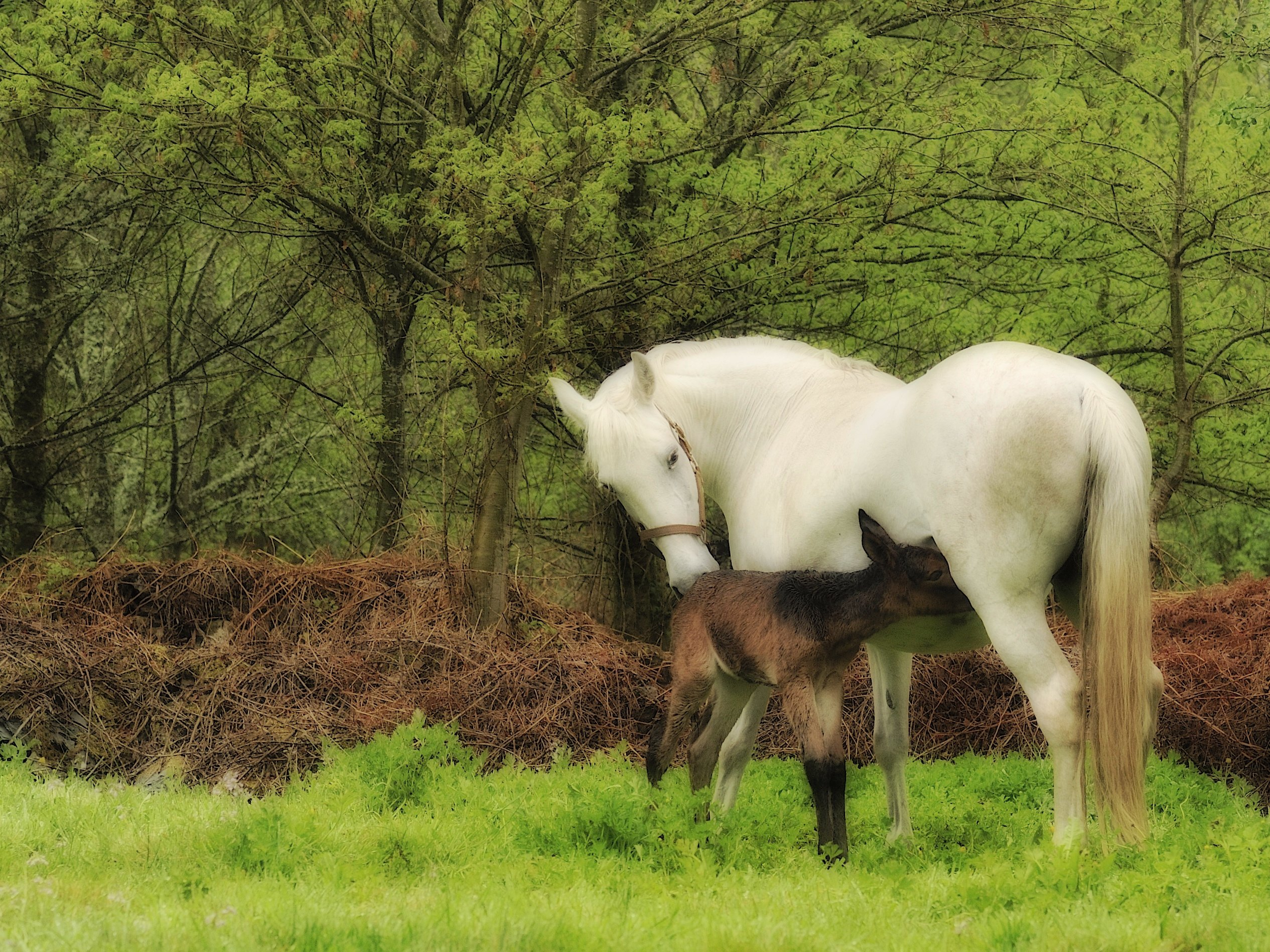 Mother and son - Warmth, Galicia (Spain)